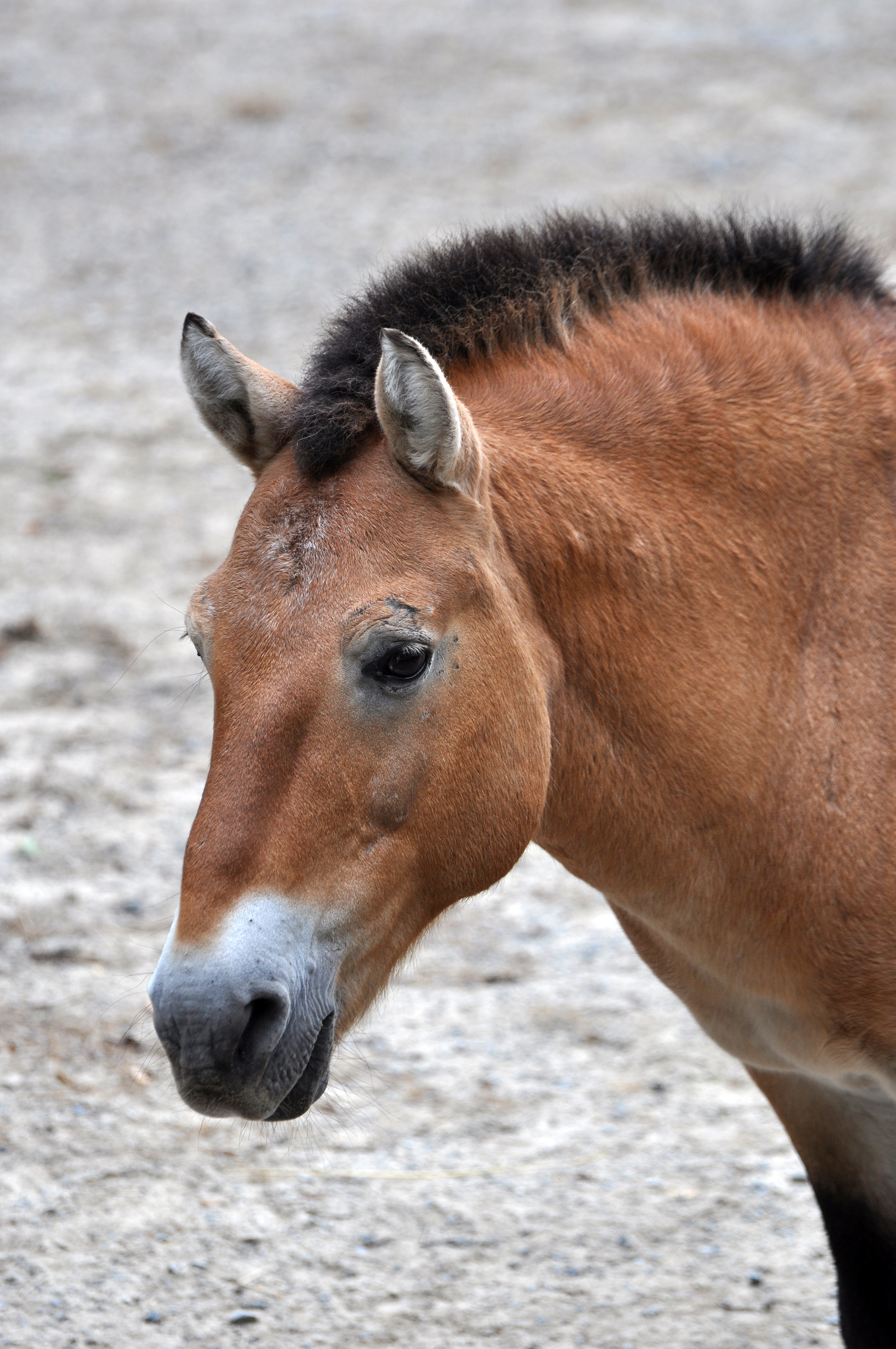 Portrait of Przewalski's Horse taken at Smithsonian National Zoological Park in Washington, D.C., USA.